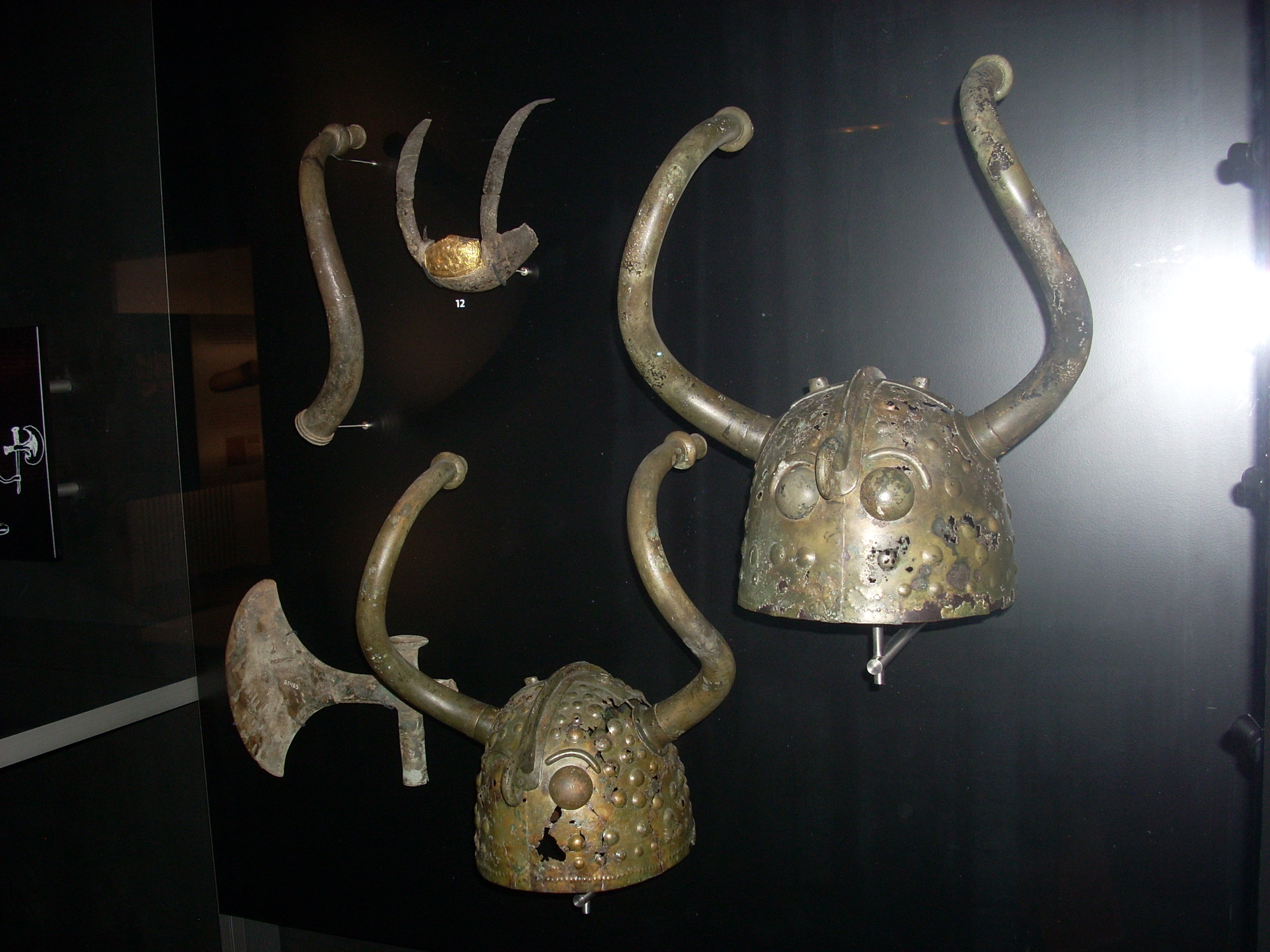 Bronze Age horned helmets from Brøns Mose at Viksø (Veksø) on Zealand, Denmark. Now in the Nationalmuseet (National Museum of Denmark) in Copenhagen.